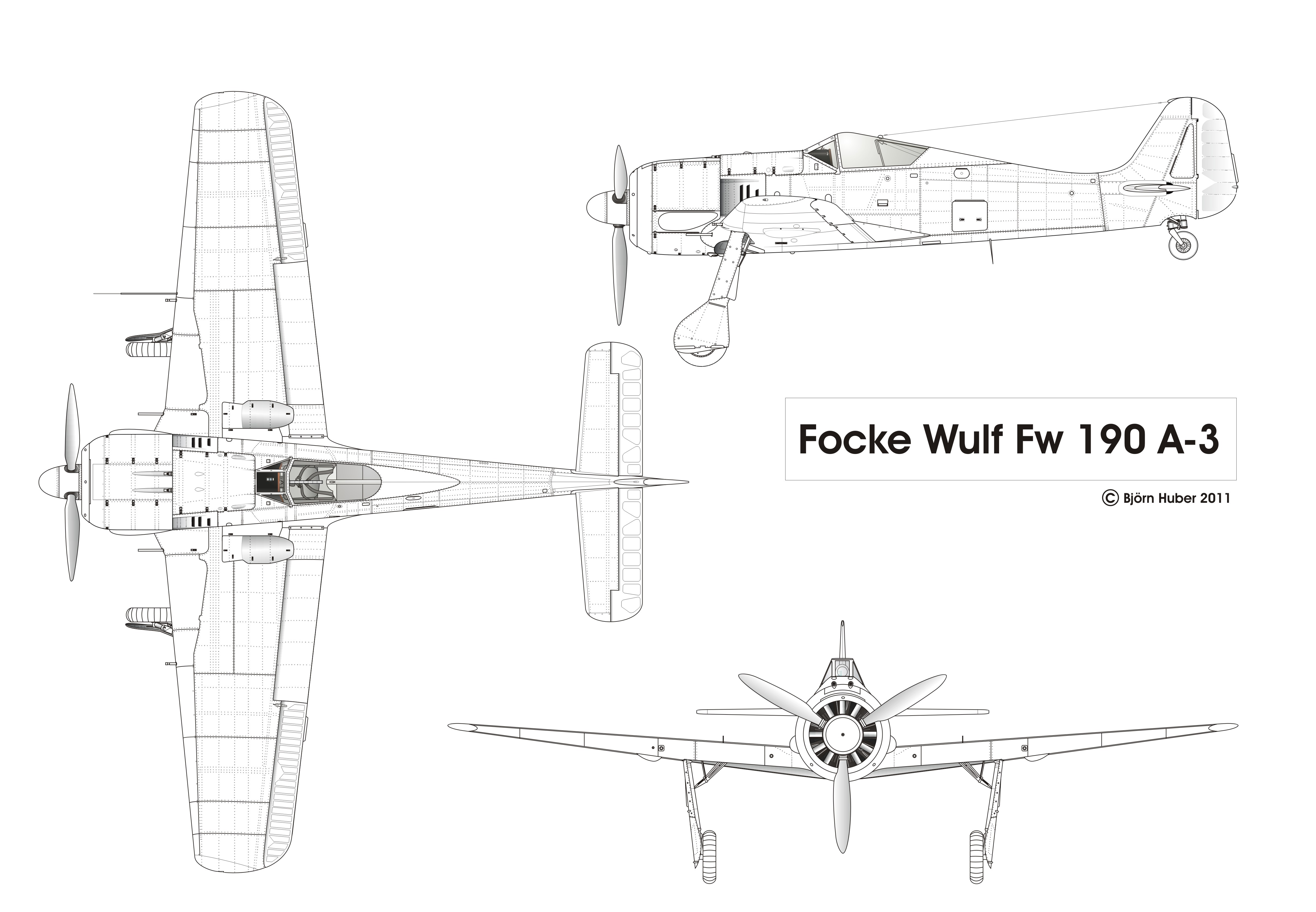 Three side view of a Focke Wulf Fw 190 A-3